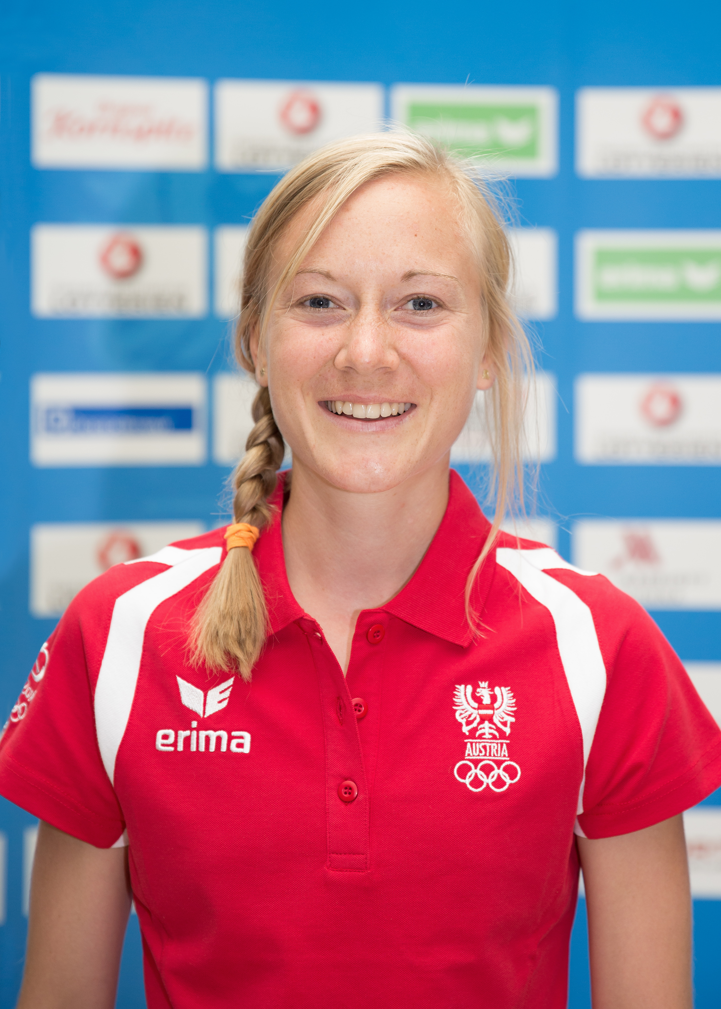 Jennifer Wenth at the hand-out of the Austrian teams official attire for the 2016 Summer Olympics (Marriott, Vienna).